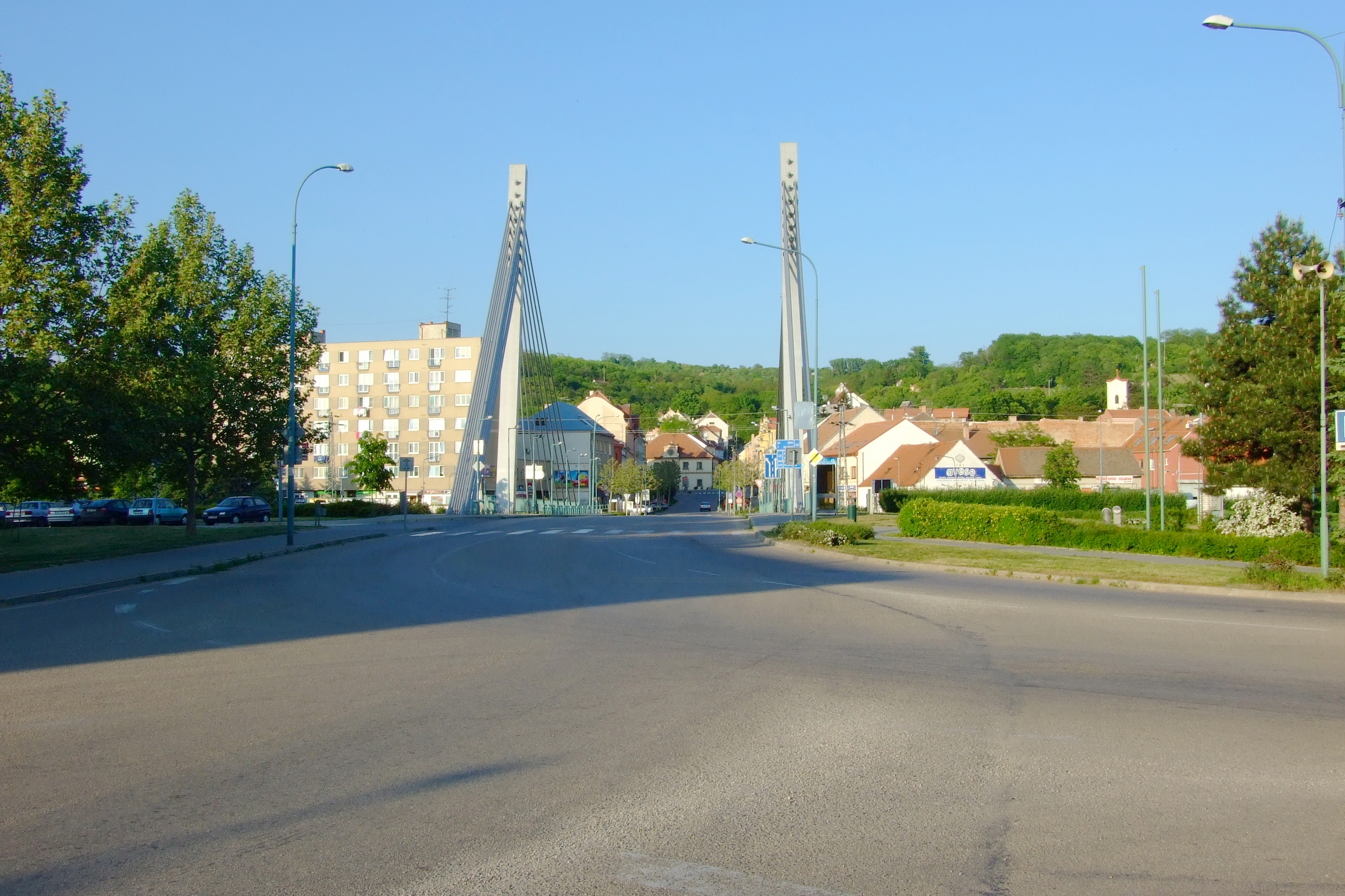 Židlochovice - eastern part of town from west